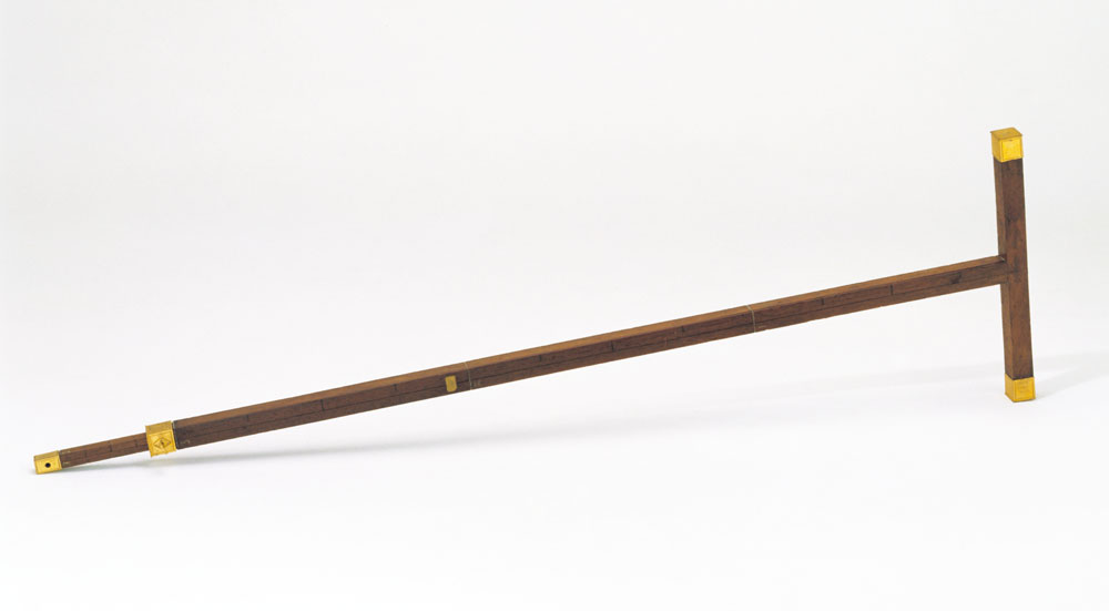 Artist Christoph Schissler [attr.]Author Jacob ben Machir Ibn Tibbon [attr.]Description